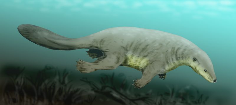 Castorocauda lutrasimilis, a docodont from the Middle Jurassic of China, digital